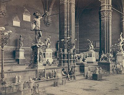 Photo of Florence (Firenza) the Loggia Circa late 1800s